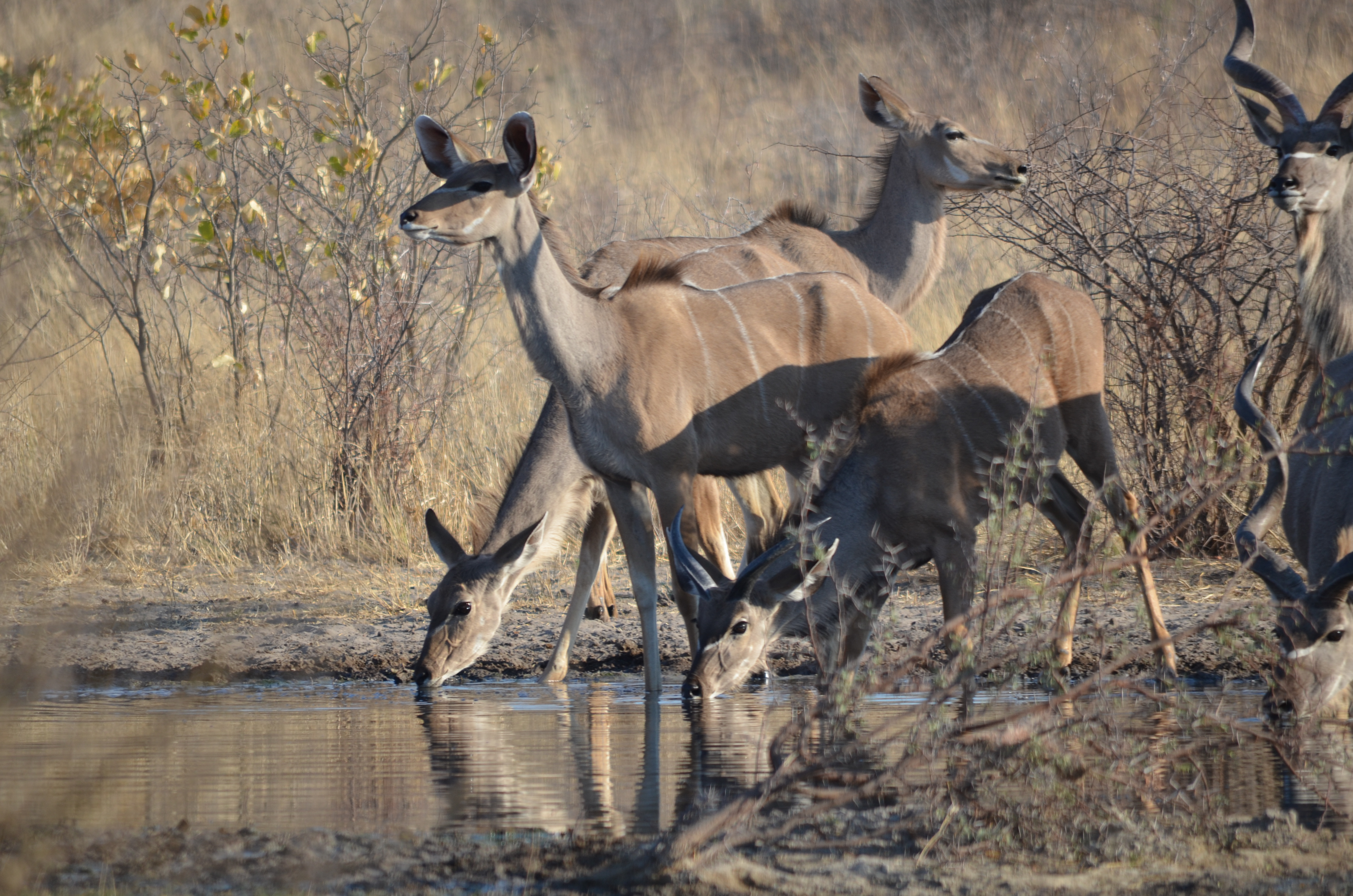 kudu of kalahari